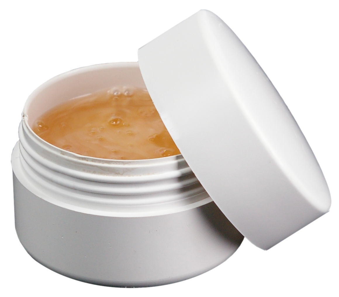 Jar made of PLA-Blend Bio-Flex